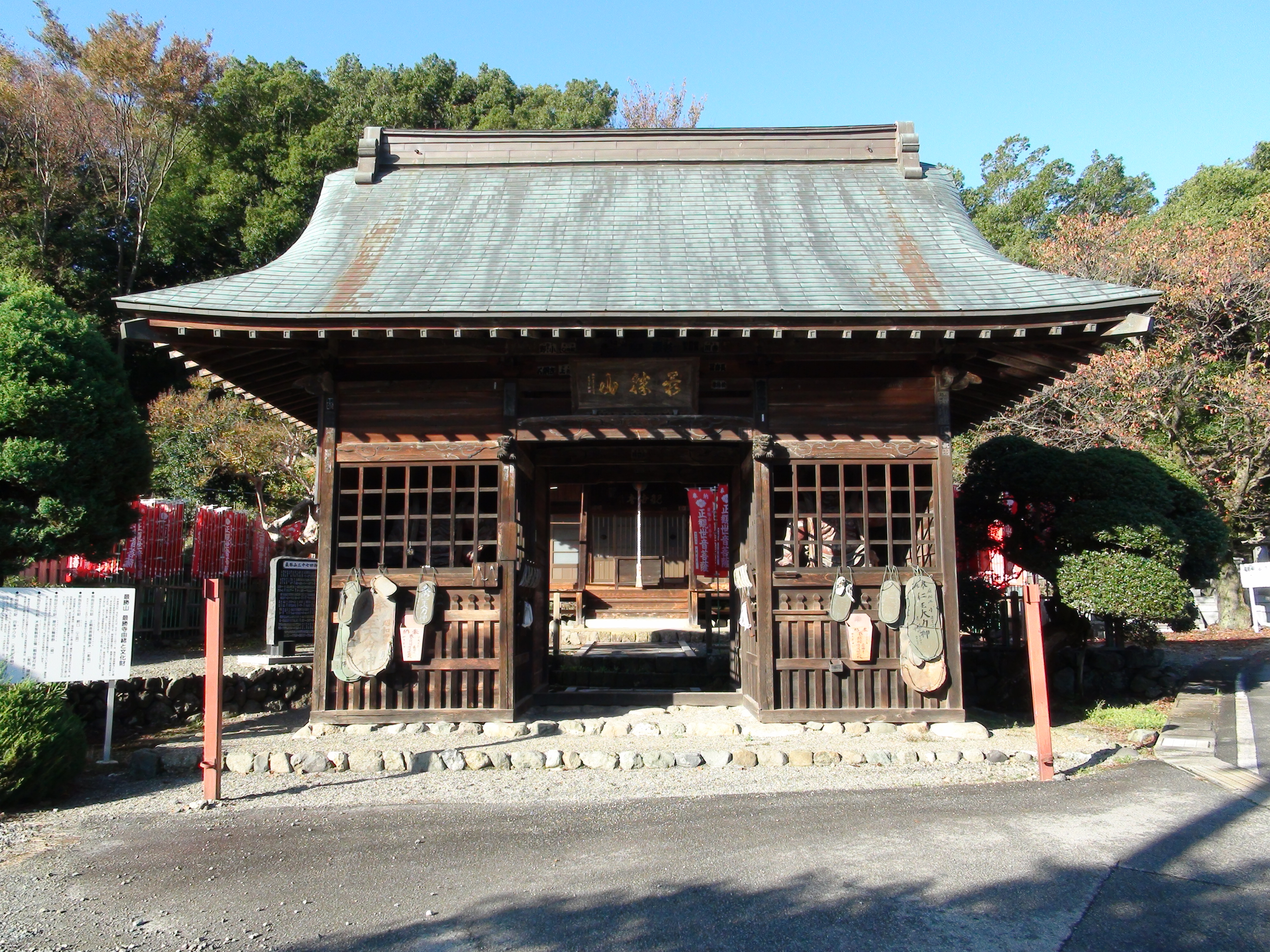 Saishoji Deva gate Fujikawa Yamanashi